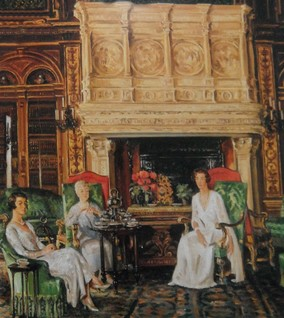 1932: Mrs. Cornelius Vanderbilt, II and her daughters, Gladys and Gertrude, having tea in the libtary at the Breakers Newport, Rhode Island.